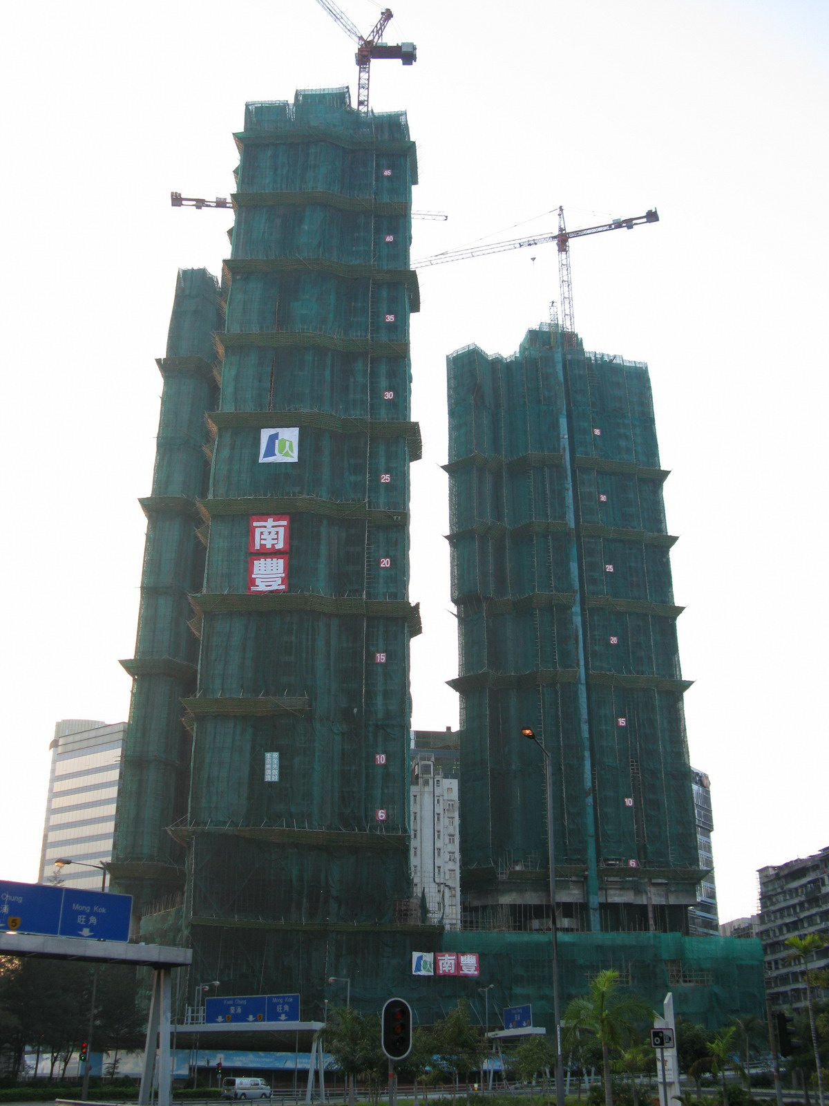 Cherry Street Project under construction (2007/12)